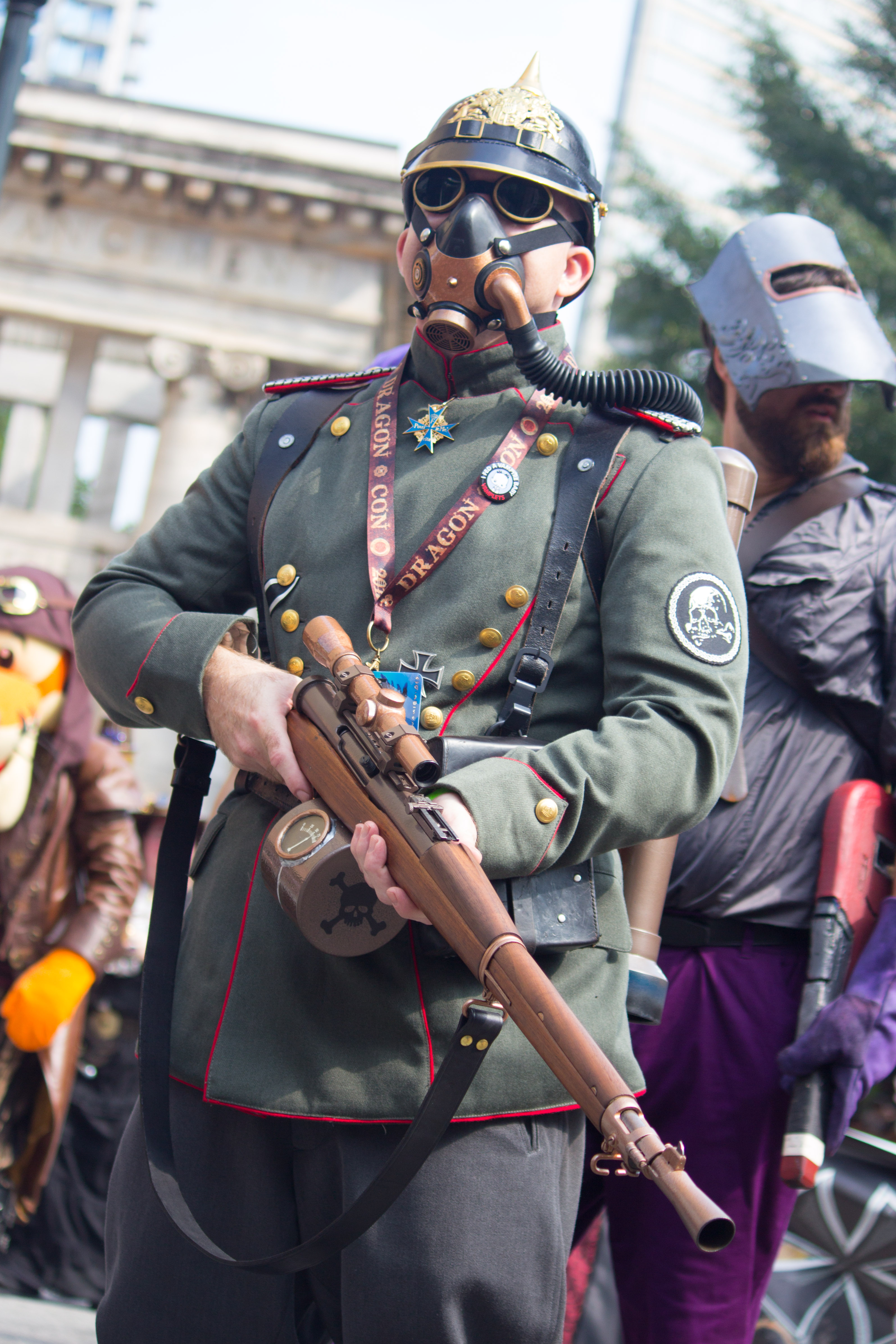 The 2013 Dragon*Con parade through Atlanta.